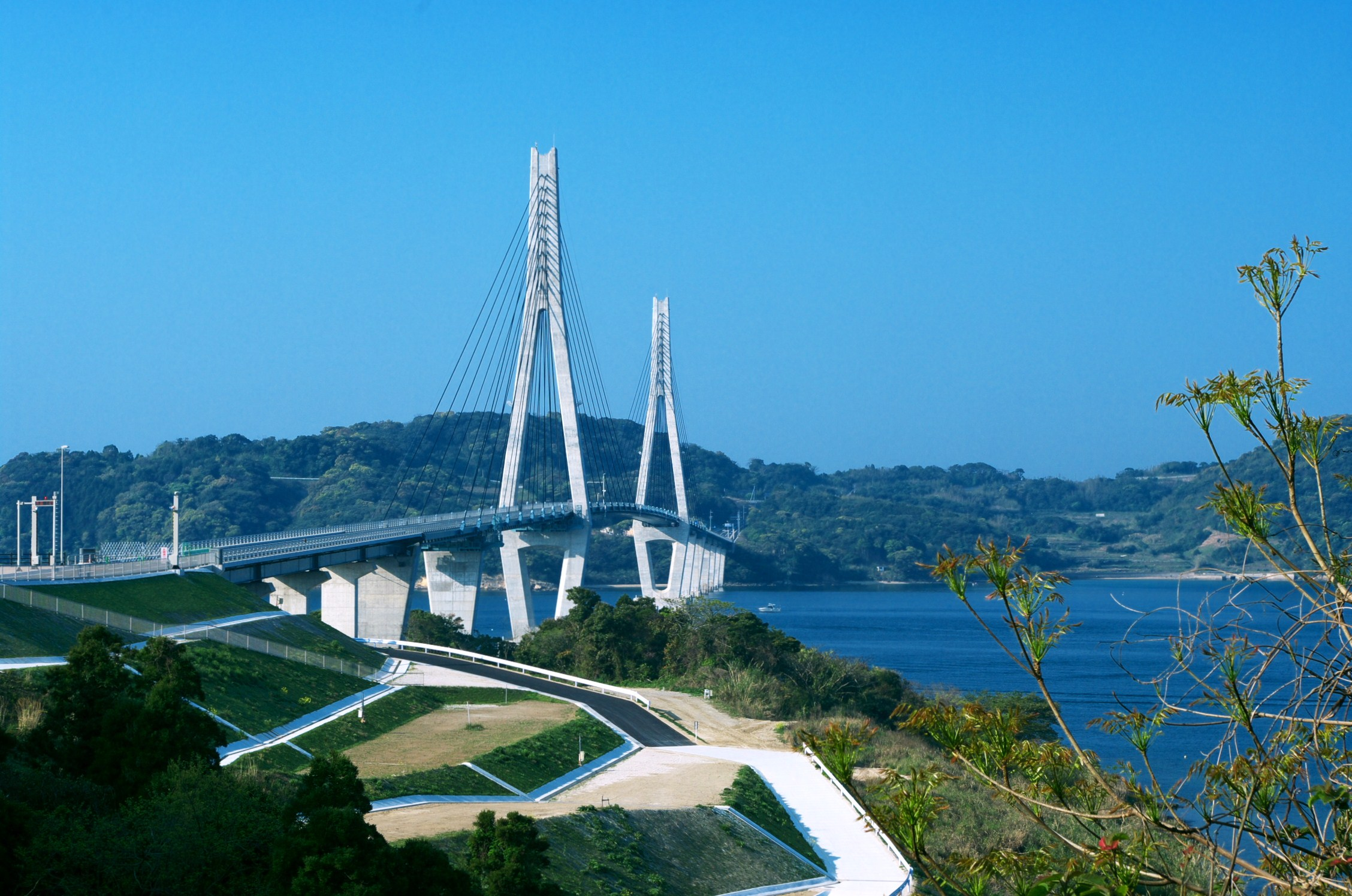 Takashima Hizen Bridge between Nagasaki and Saga Prefectures